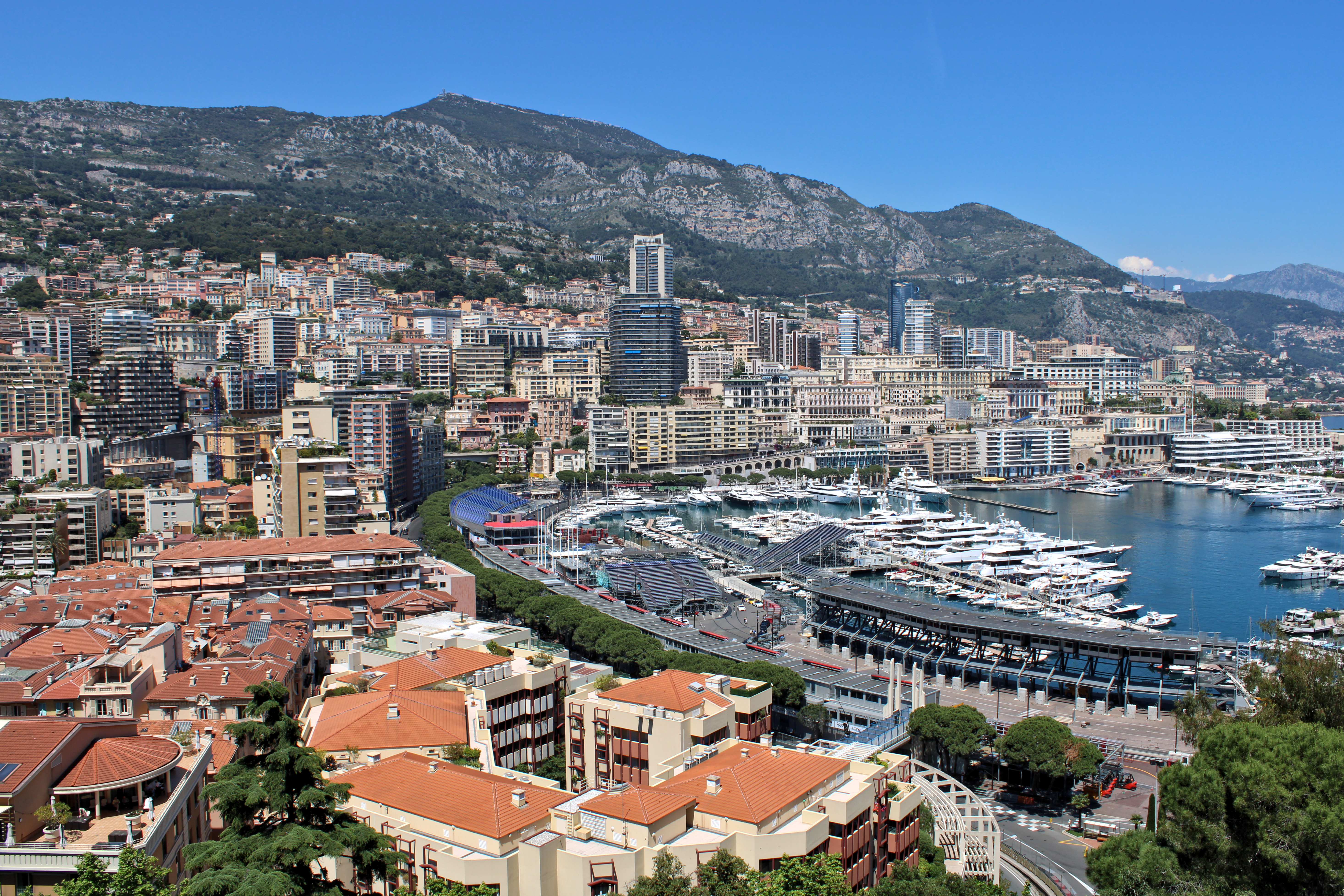 Port Hercule, La Condamine, Monte Carlo in Monaco